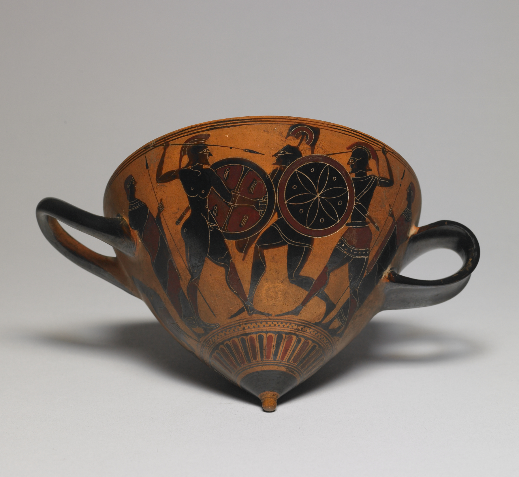 This shape of drinking-cup is called a "mastos" and resembles a woman's breast. On the front, a soldier whose nudity signifies heroic status advances against two warriors dressed in short tunics; two heralds watch from either side. On the back, a nude warrior confronts a clothed one in a similar scene. Beneath the horizontal handle stands a siren, a mythical creature with a woman's head and a bird's body, whose powers included knowledge of the outcome of battles.